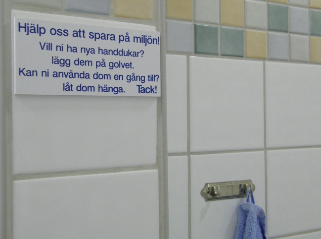 Sign showing differences in spelling of personal pronouns in Swedish.